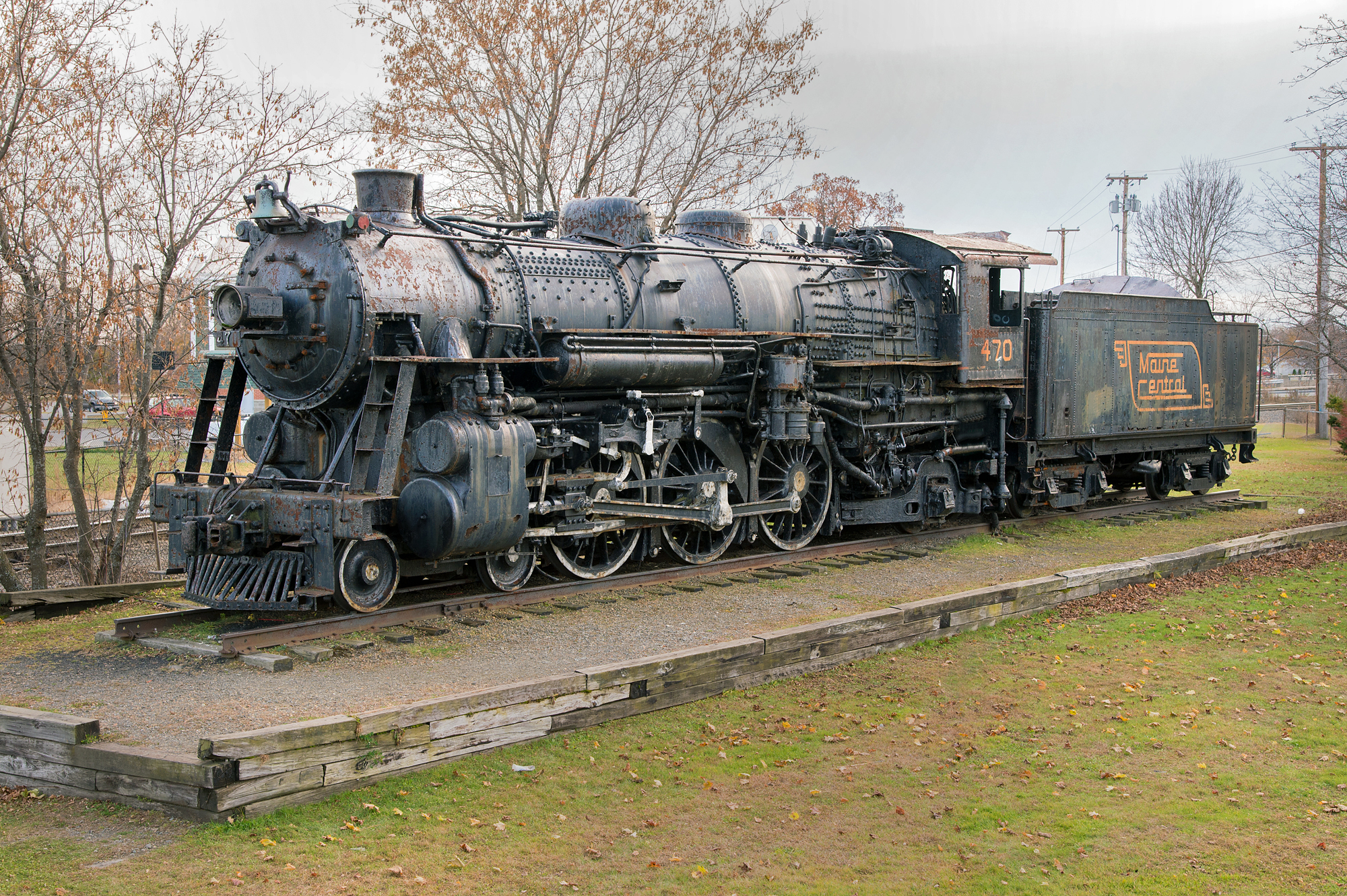 Maine Central Steam Locomotive 470 sits on a display plinth along College Avenue in Waterville, Maine